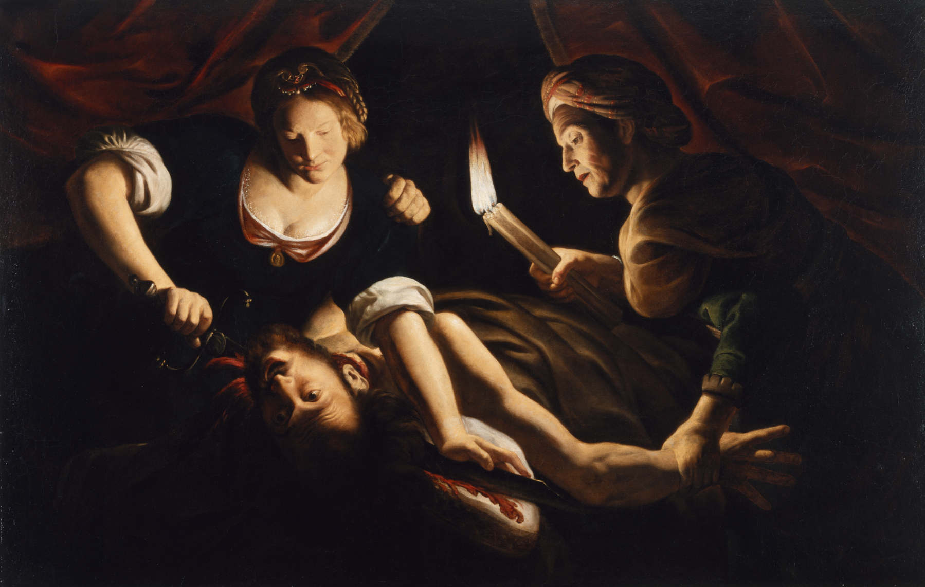 According to the Book of Judith in the Catholic Old Testament, the virtuous widow Judith saved her people when the military commanders failed to lift a siege by the Assyrians. She beguiled the enemy General Holofernes into getting drunk and cut off his head. The artist heightened the drama by contrasting Judith's serene determination with the amazement and horror exploding from the general's face. Portraying his head upside down emphasizes Holofernes' defeat and evokes the reversal of societal norms in a woman's victory over a strong man. By the 1620s, Trophime Bigot (ca. 1579-1650, also known as Master of the Candlelight) was in Rome, where he studied the paintings of Caravaggio (1571-1610). The Italian master had introduced often brutal, naturalistic, close-up scenes lit by a single light source. In this powerful baroque composition, the candle's light concentrates the drama around the clear diagonal movement back from Holofernes's straining arm.